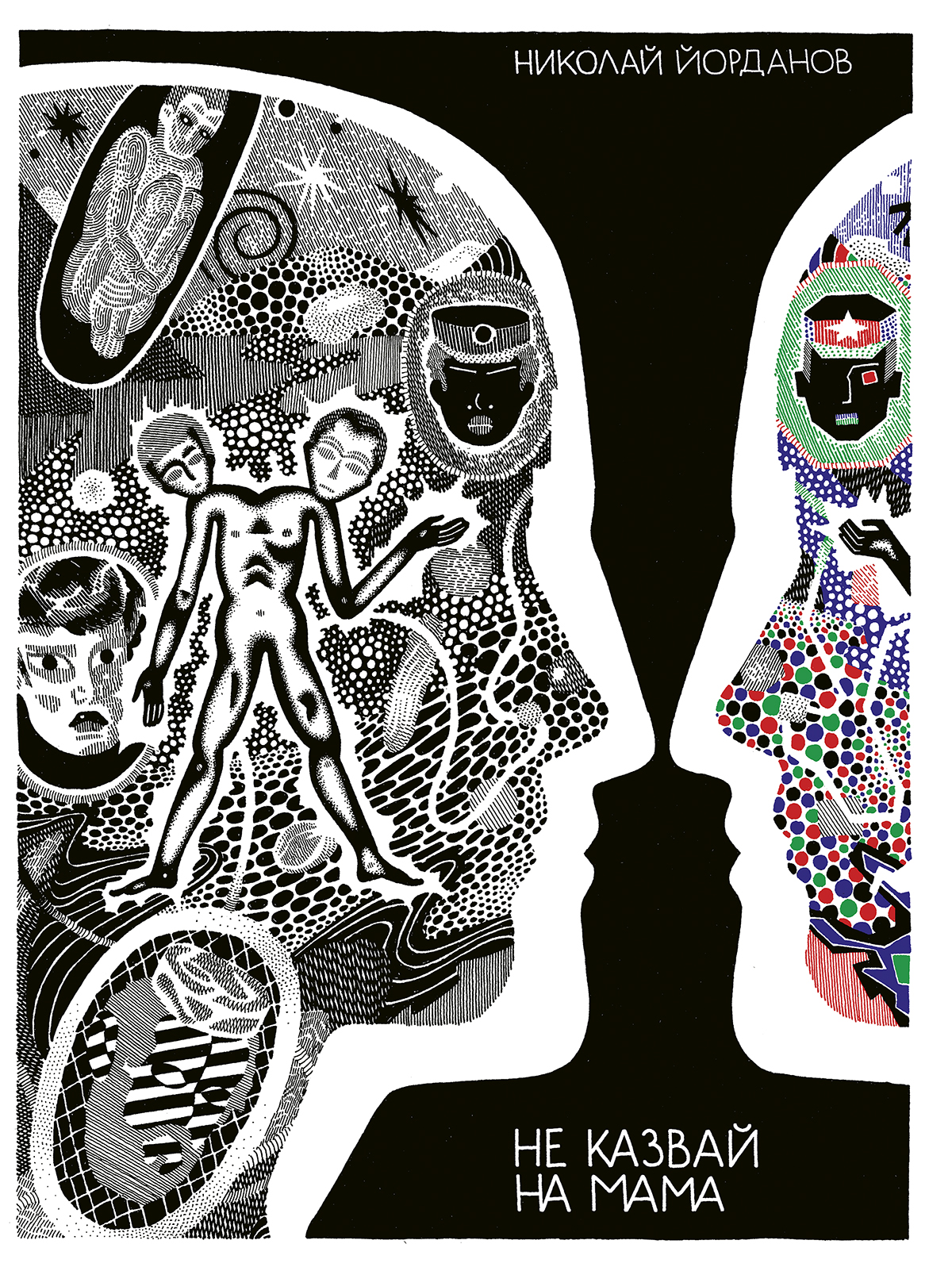 The cover of the Bulgarian print edition of the book "Don't Tell Mama"